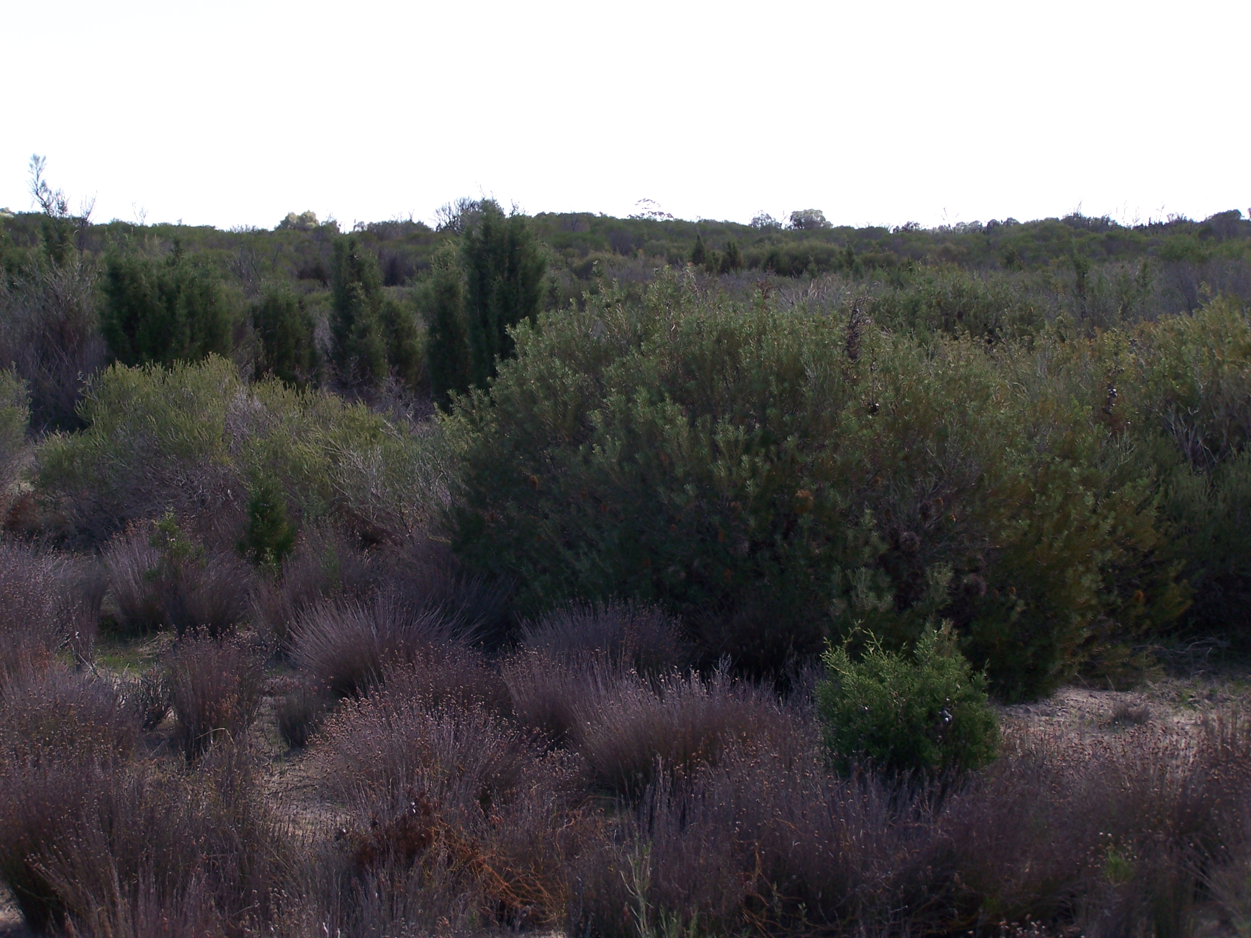 Images of Banksia telmatiaea taken in the Yule Brook Reserve, Kenwick Western Australia